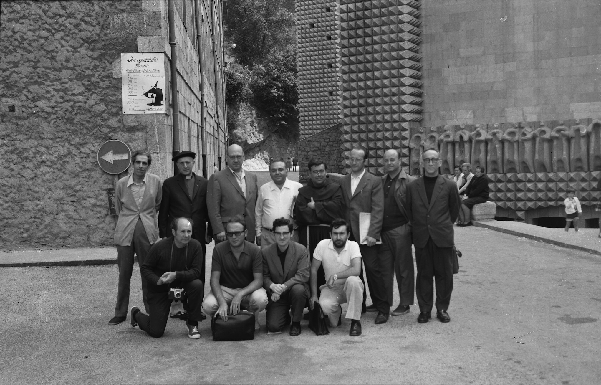 Members of Euskaltzaindia (Basque Language Academy) in Arantzazu, Guipuscoa, Basque Country. 1972-7-29.